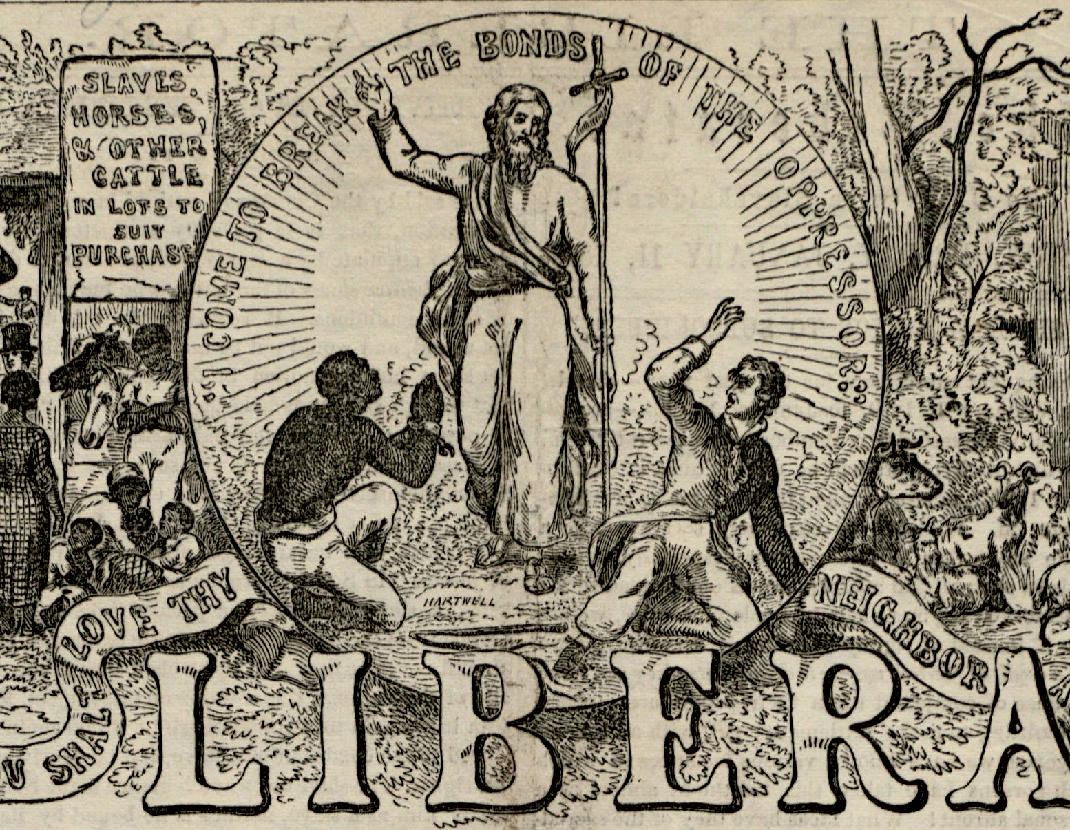 Center of the masthead of The Liberator with a figure of Jesus hearing the pleas of a kneeling slave and casting aside a white slave owner.